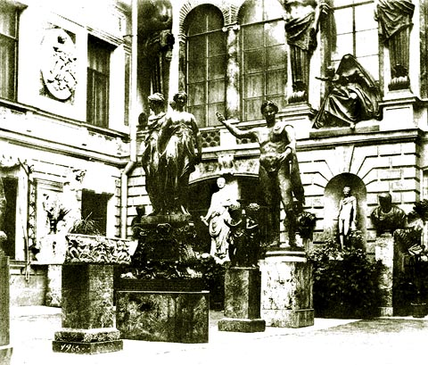 Art collection of Auguste de Montferrand